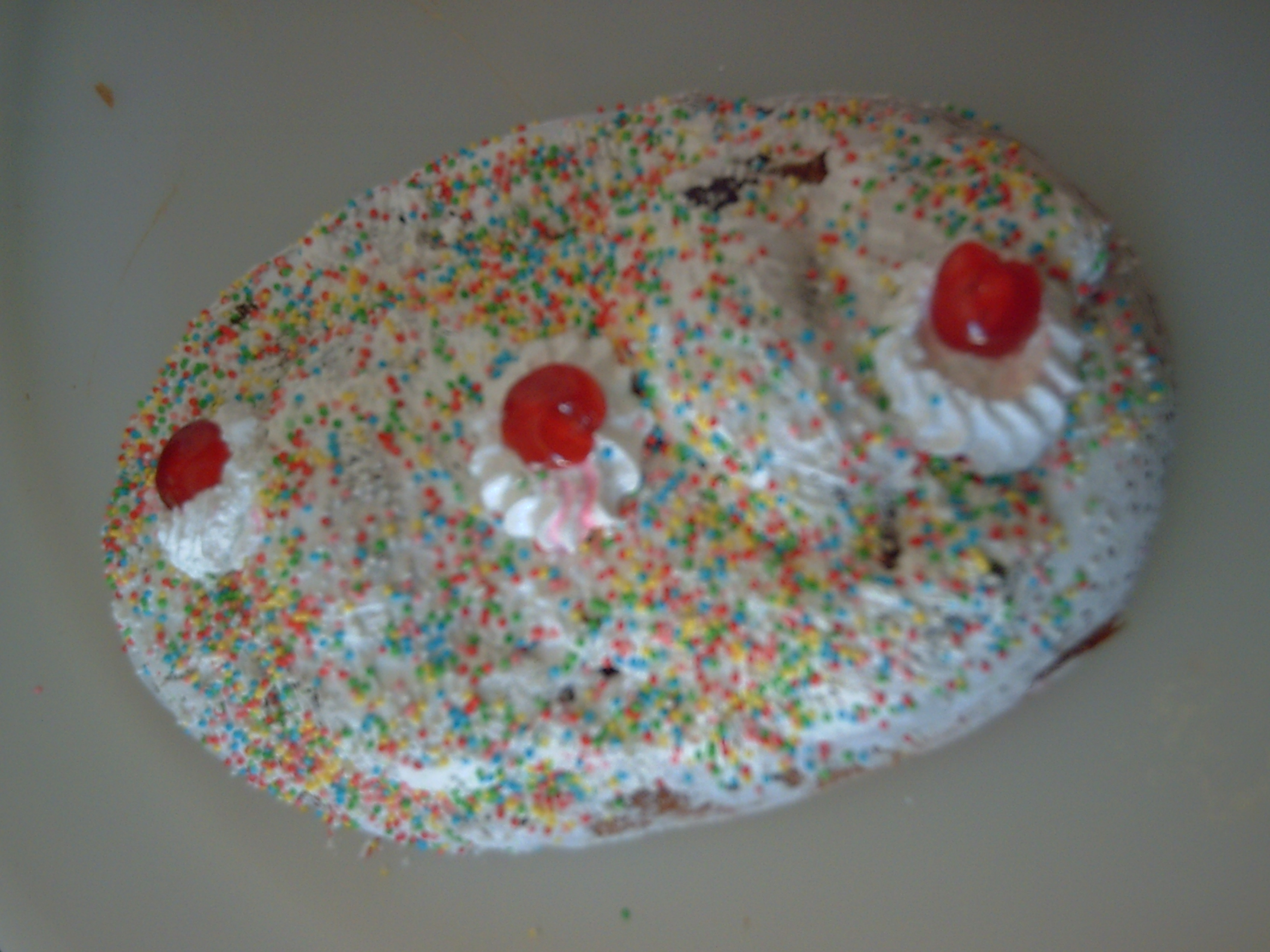 A hornazo, typical bun of Santa Cruz de la Zarza (Toledo, Spain)